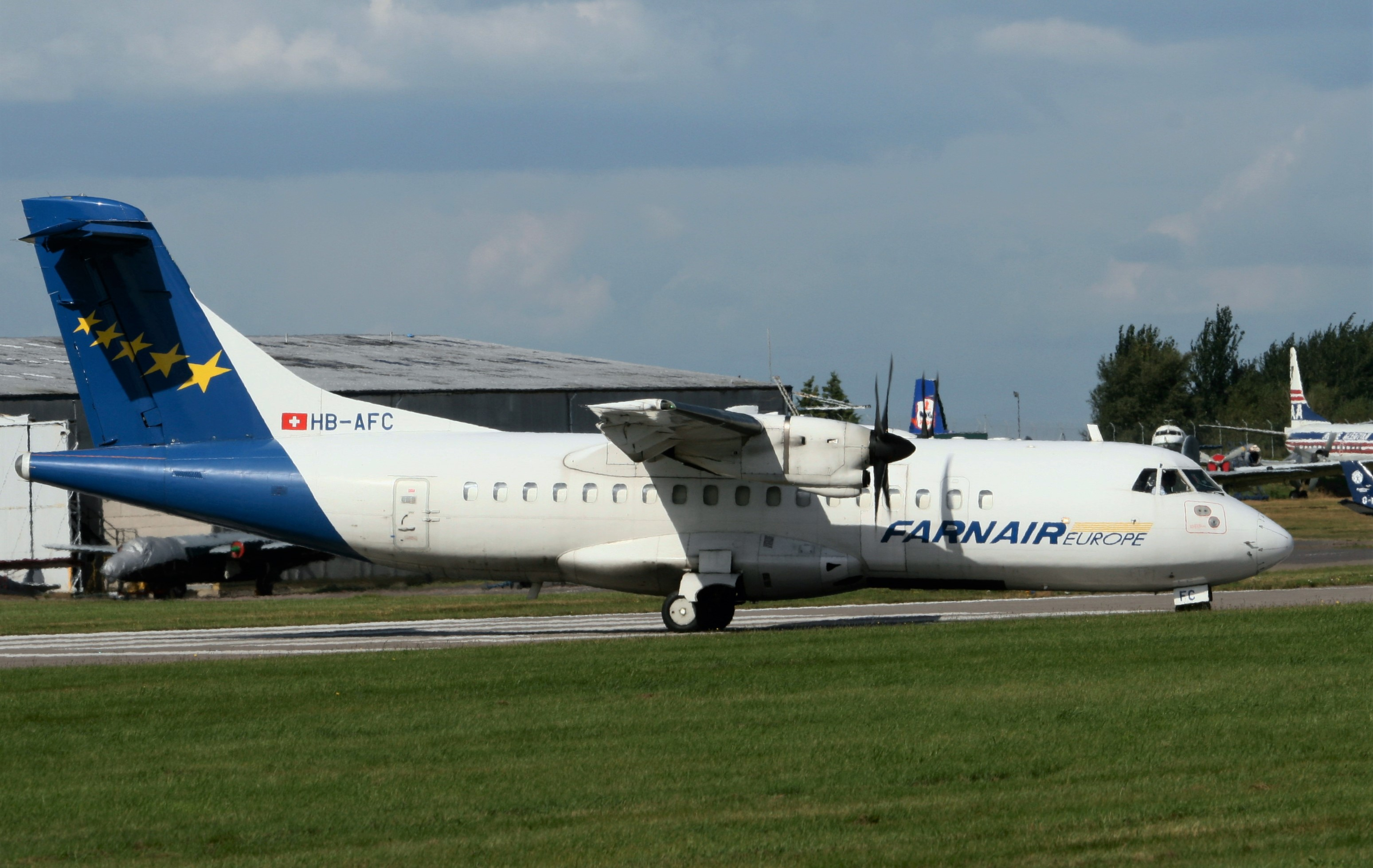 HB-AFC ATR42-300 Farnair Coventry 03-09-2007